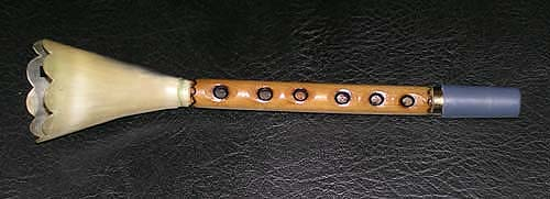 The zhaleika (Жалейка in Russian, also known as брёлка or bryolka) is the most commonly possesed and used Russian wind instrument, and also known as a "folk clarinet" or hornpipe.